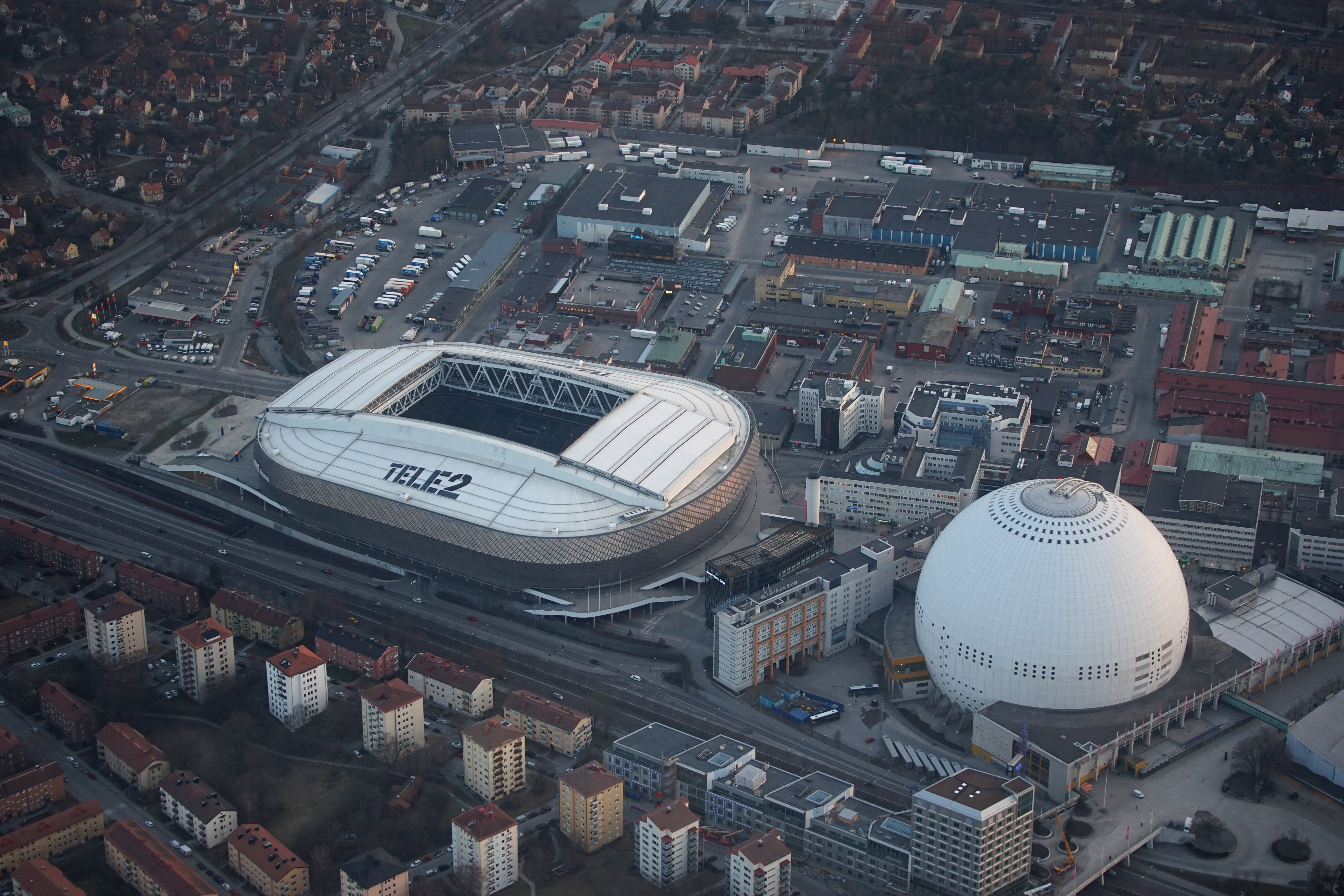 Tele2 Arena and Ericsson Globe, view from airplane flying to Bromma Airport. April 2018.